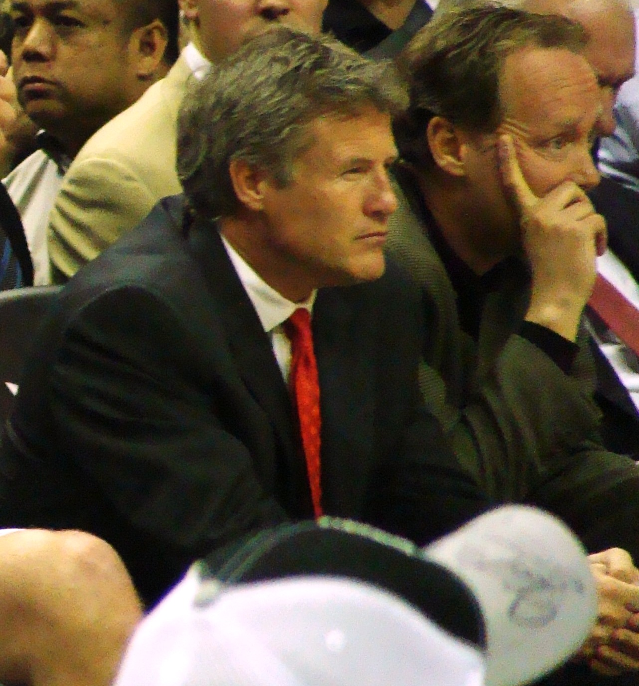 Brett Brown, Assistant Coach of the San Antopnio Spurs, during the Nuggets-Spurs match on Dec 22, 2010. Mike Budenholzer is sitting to his left.